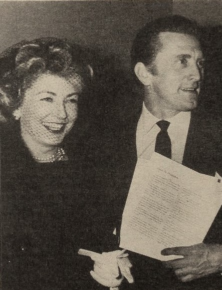 Anne Buydens and her husband Kirk Douglas, 1959